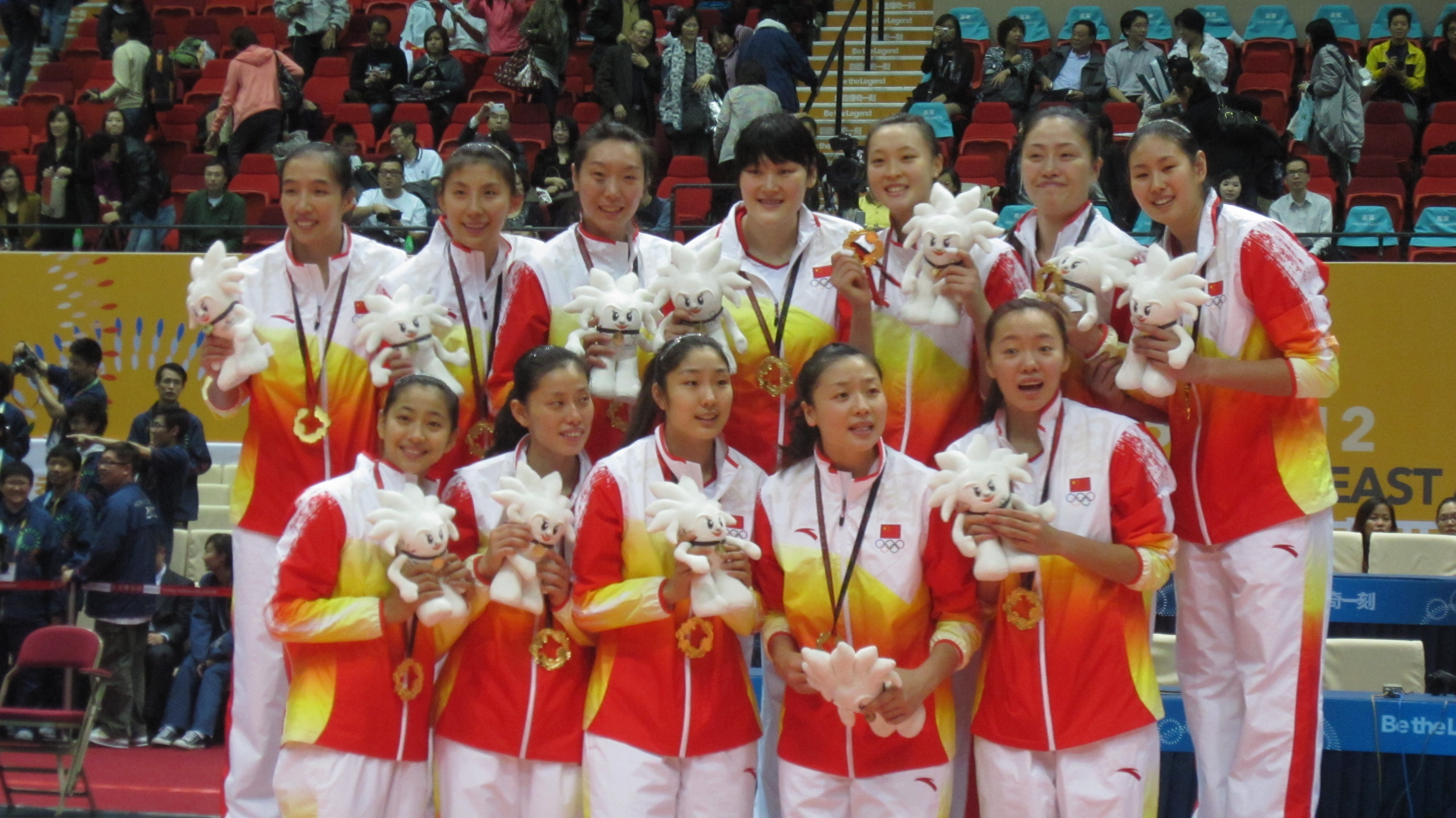 Hong Kong East Asian Games